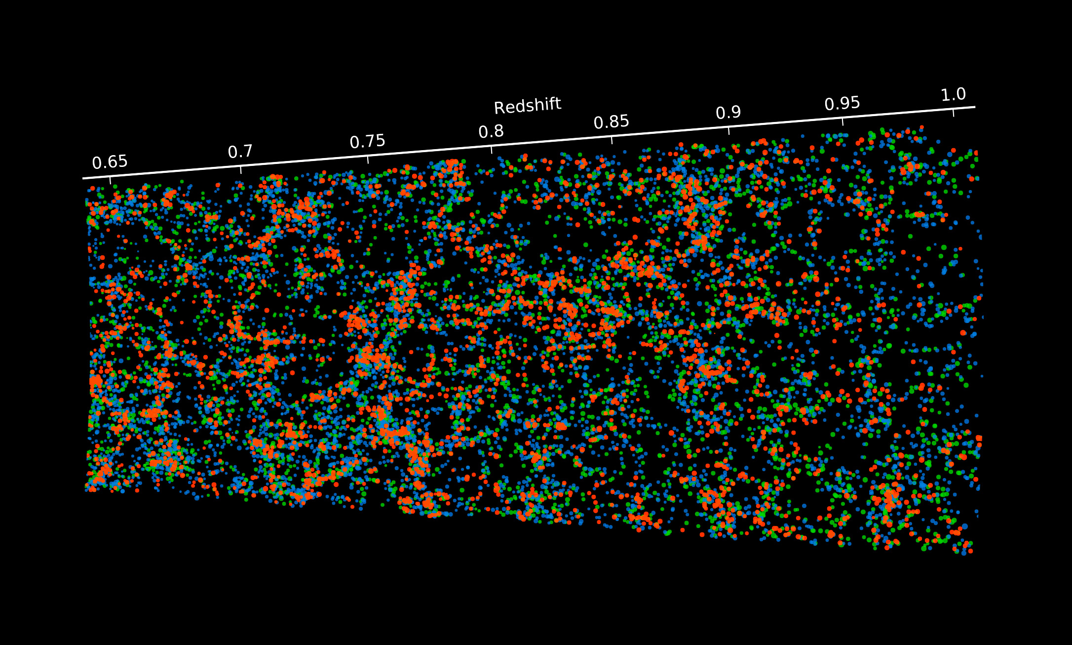 This map of a section of the Universe shows the positions of thousands of galaxies that were measured as part of the VIPERS survey with ESO’s Very Large Telescope. The observer on the Earth is at the left and galaxies towards the right are seen at earlier times in the history of the Universe. Redshift 0.65 corresponds to looking back about six billion years and redshift 1.0 to about eight billion years ago. The colours indicate the true colours of the galaxies — red objects are red elliptical galaxies and blue are star-forming spiral galaxies. The sizes of the blobs indicate the brightness of the galaxies. The complex structure of the large-scale structure of the cosmic web is clearly seen.